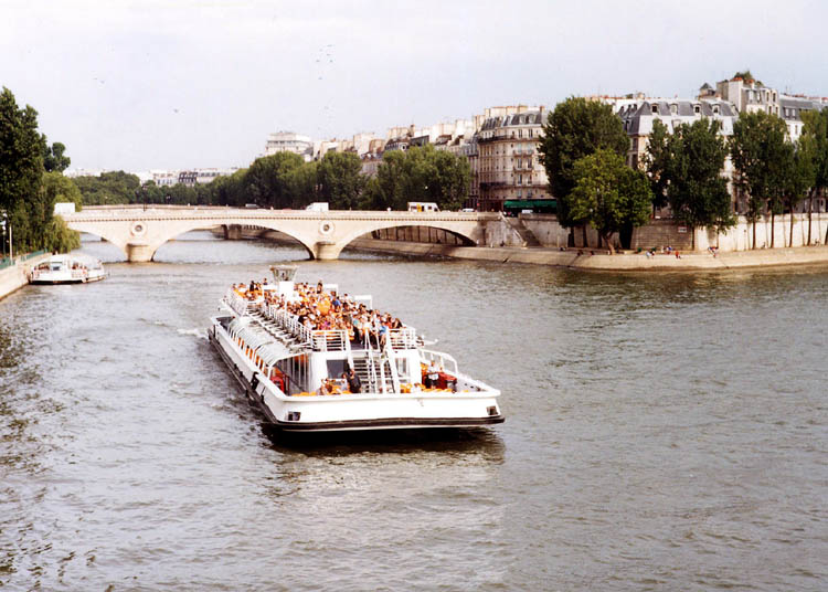 A tourist boat travels the River Seine in Paris, France. Taken by Adrian Pingstone in June 2002 and released to the public domain.